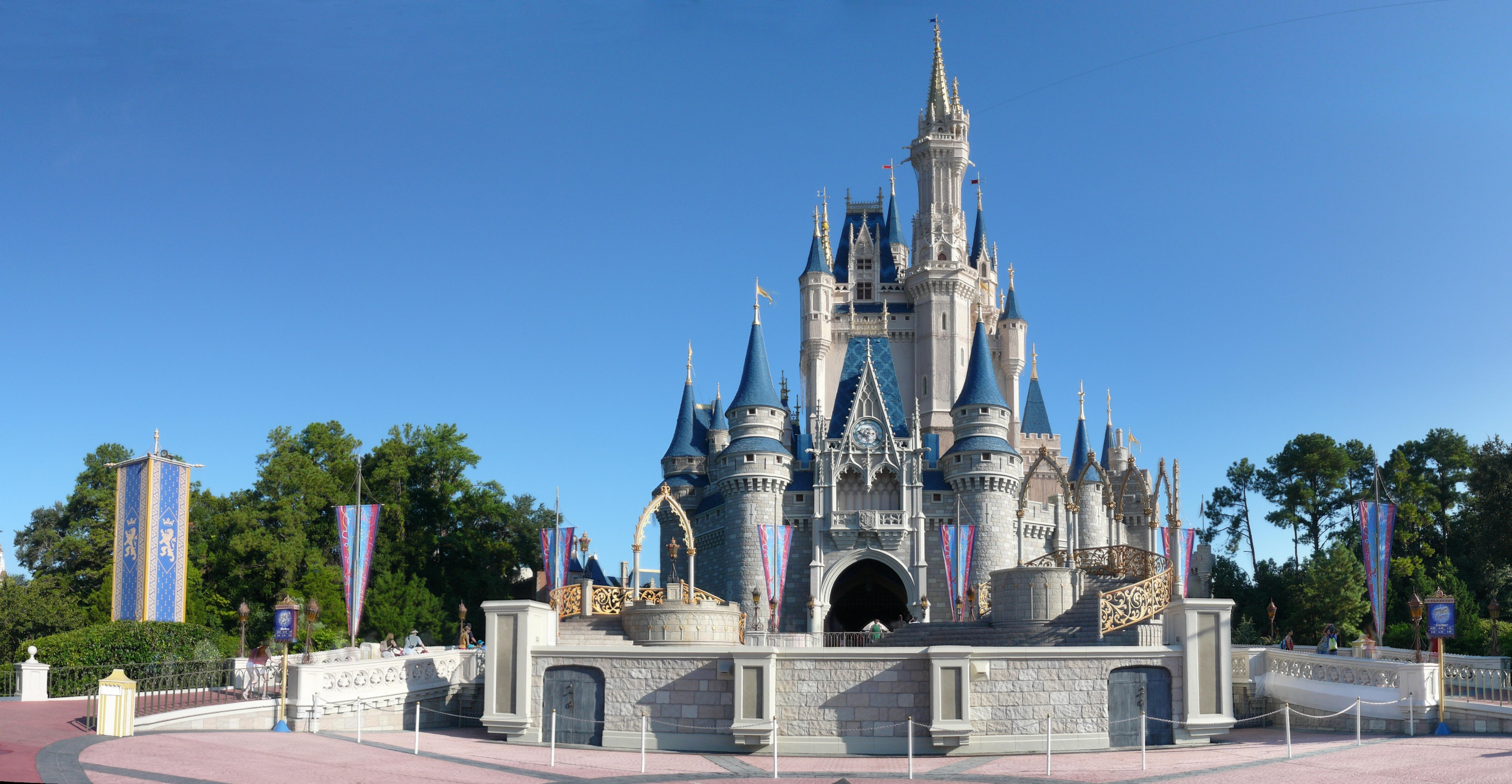 Cinderella Castle Magic Kingdom Panorama 2009, Location: Lake Buena Vista